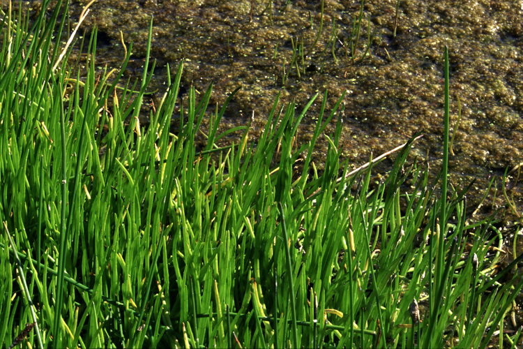 Lilaeopsis occidentalis at Humboldt Bay National Wildlife Refuge Complex, California, USA